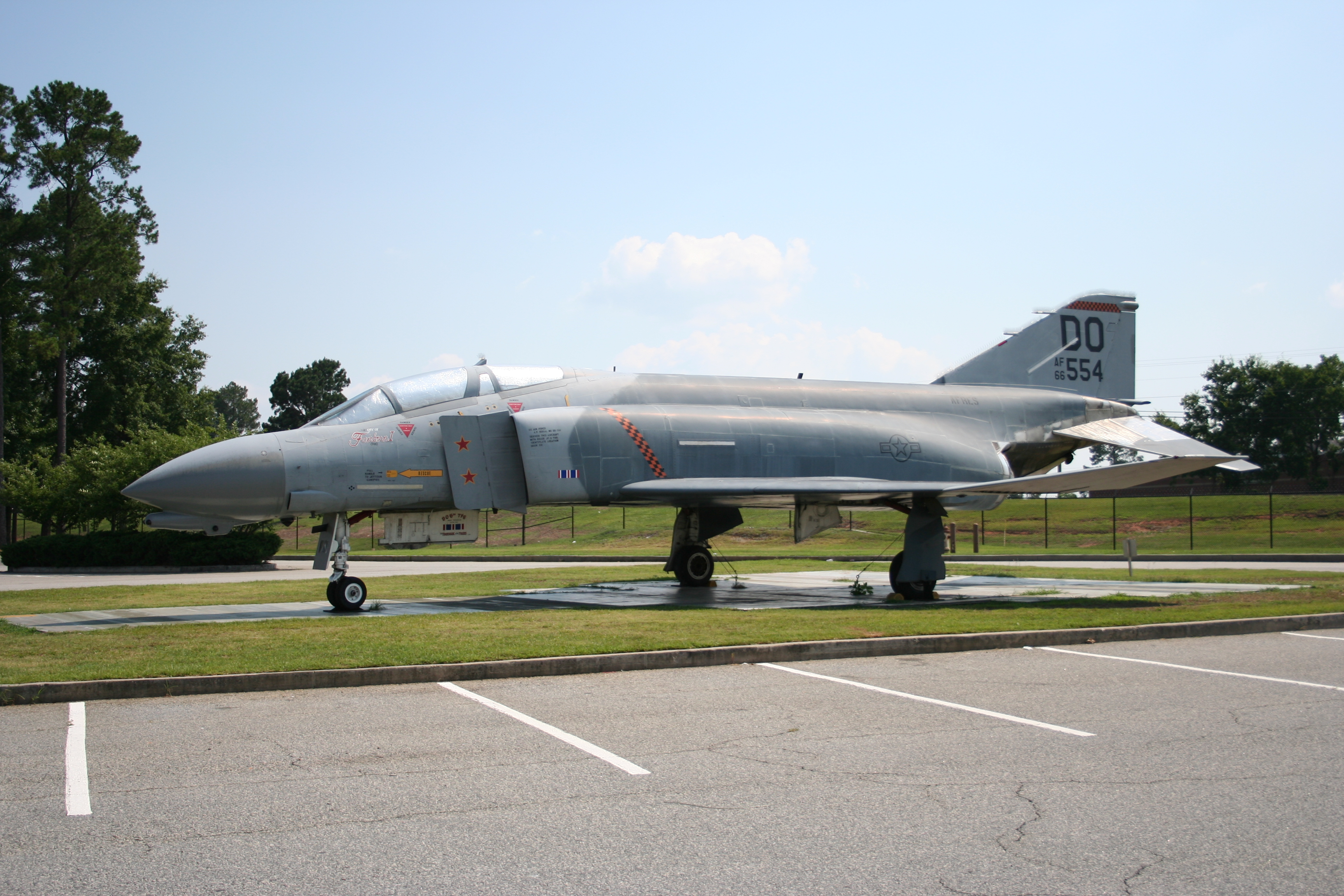 F-4D Phantom II at the Robins AFB Museum of Aviation